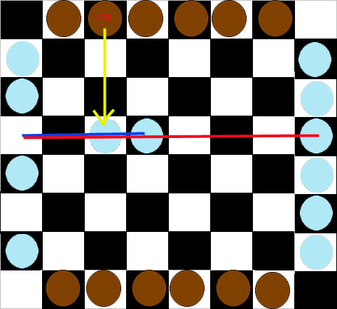 LOA (Lines of Action): Second valid move